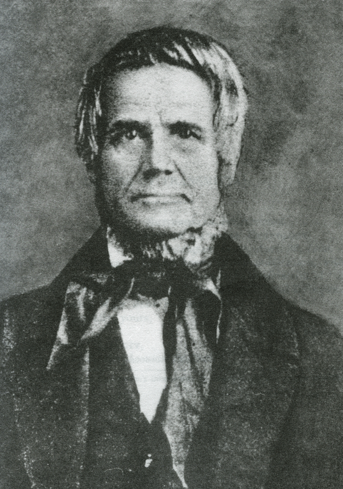 Image of Rev. Cyrus Byington, he worked nearly 50 years to translate the Choctaw language to English among the Choctaws in Mississippi before removal and following them to Indian Territory (Oklahoma) after removal.